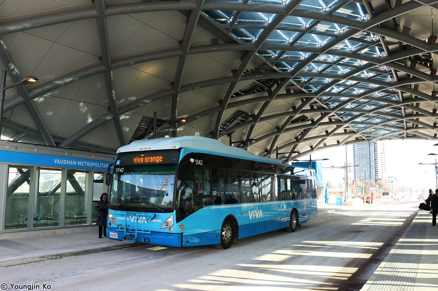 Viva 2006 Van Hool A330 has been seen on viva orange at VMC vivastation.